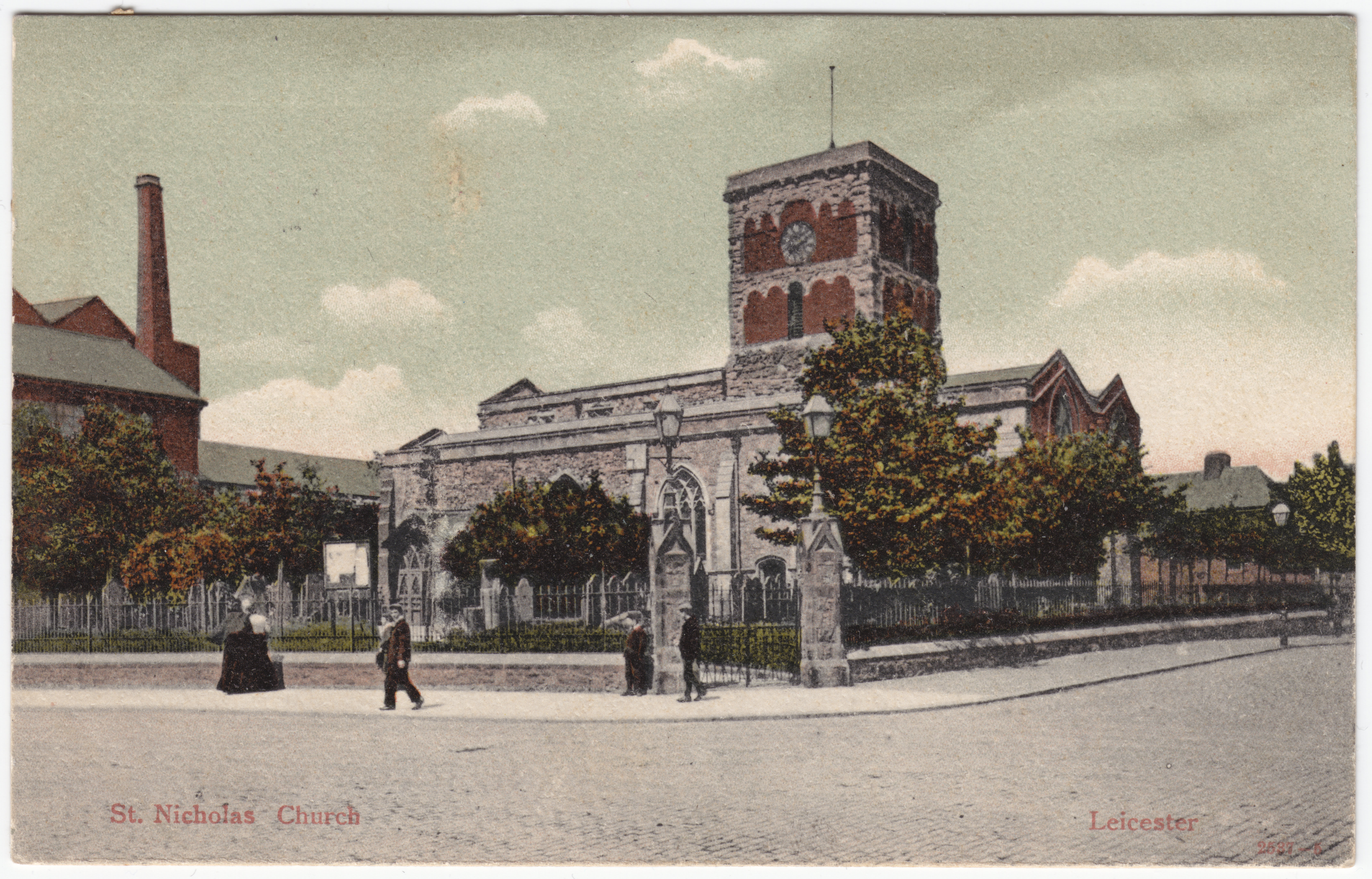 A postcard of St Nicholas Church, Leicester. One can also seen the factory built adjacent to the Jewry Wall, above the site of the Roman ruins complex. Published in (or before) 1908, photographer unknown: therefore in public domain in UK copyright law.